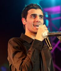 Idan Yaniv singing at a concert in Tel Aviv, Israel.